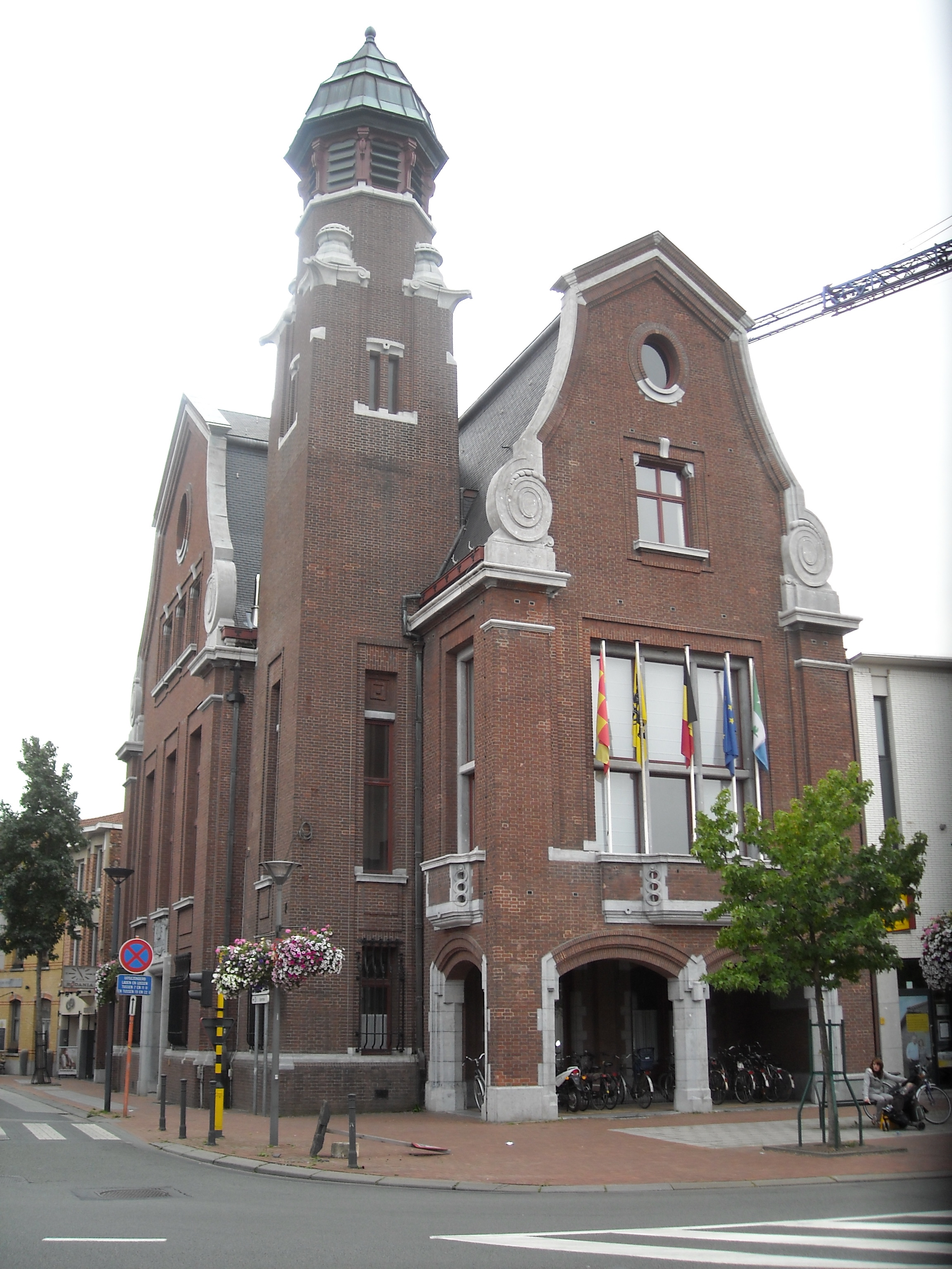 Town Hall, Dorp West 2, Zwijndrecht, BE, built 1931-1935.